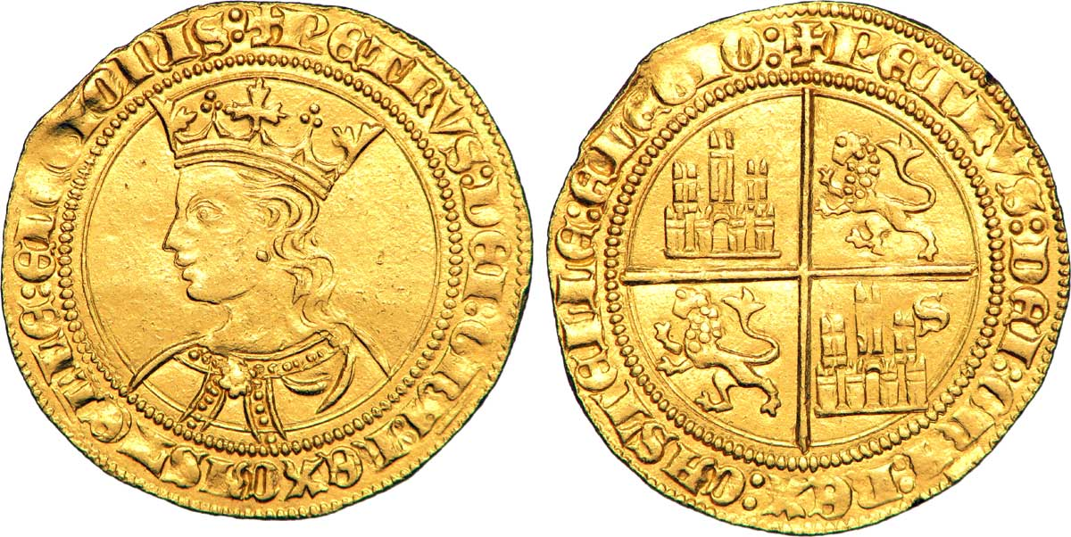 Double de 35 maravédis à l'effigie de Pierre I dit le Cruel ou le Justicier